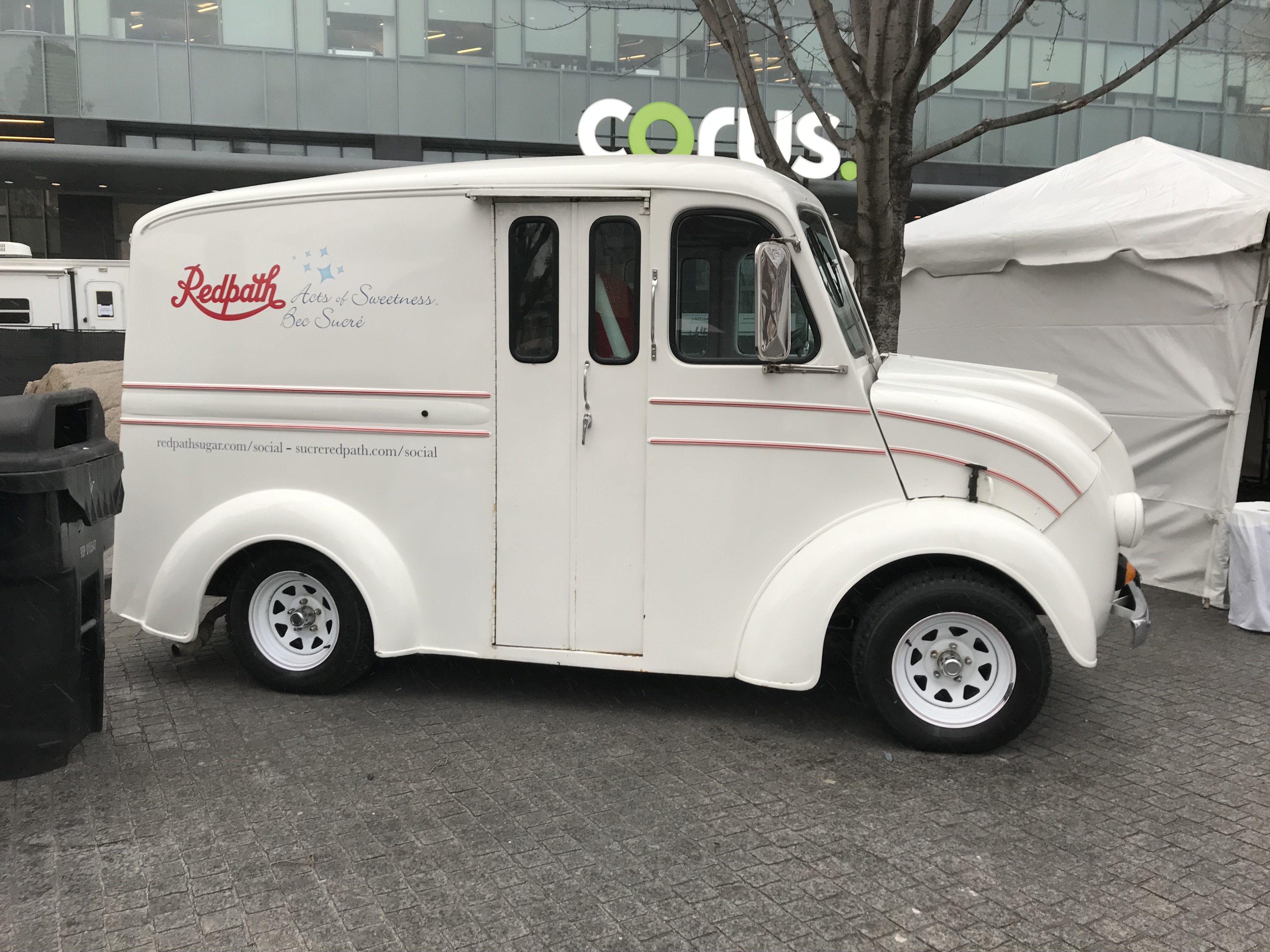 1947 Divco milk van in the service of Redpath Sugar. Ontario license plate "REDPTH".